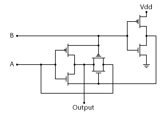 A picture of transmission gate logic implementation of an XOR gate